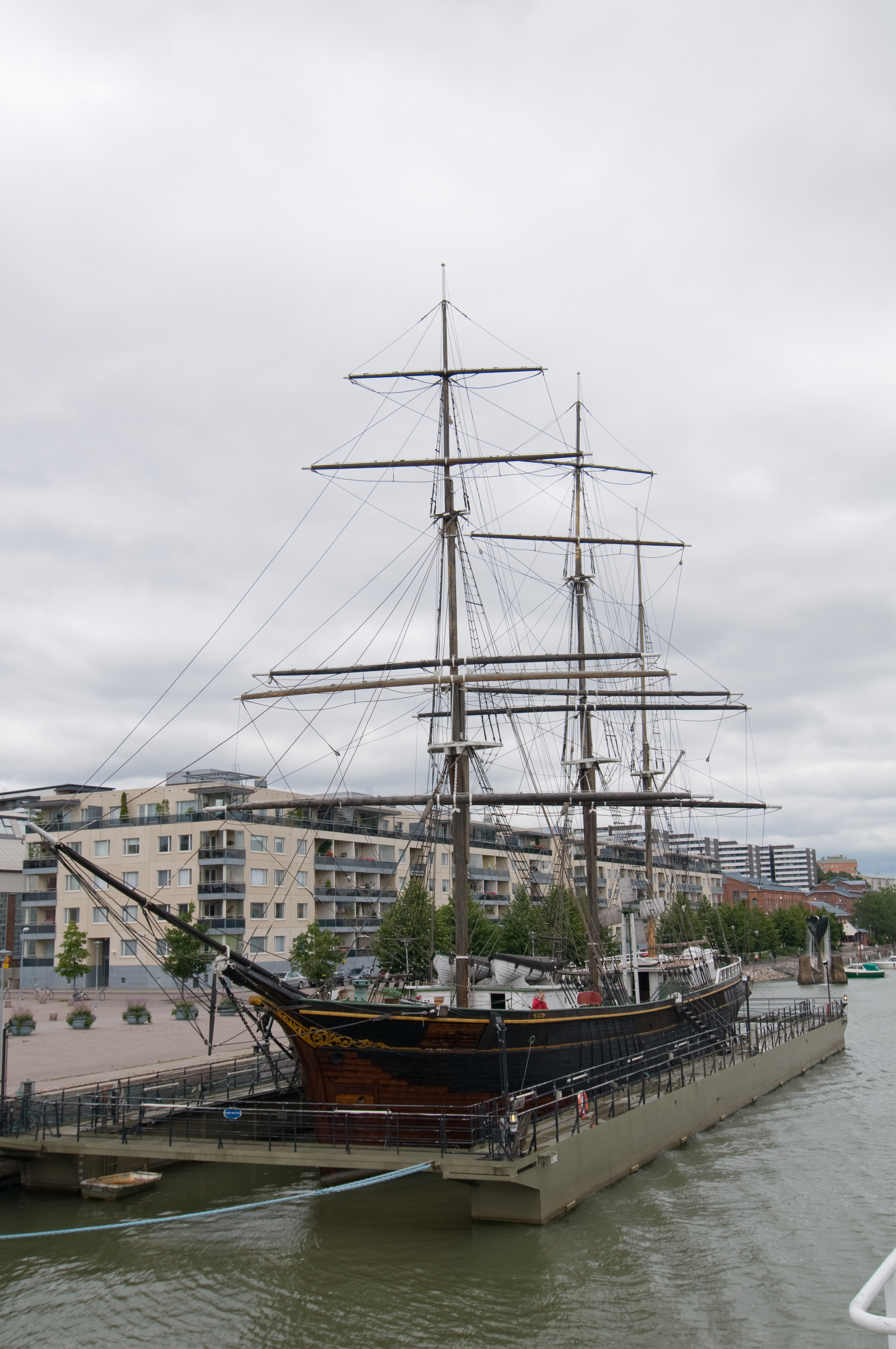 wooden tree masted barque Sigyn docked in Aura river, Turku, Finland